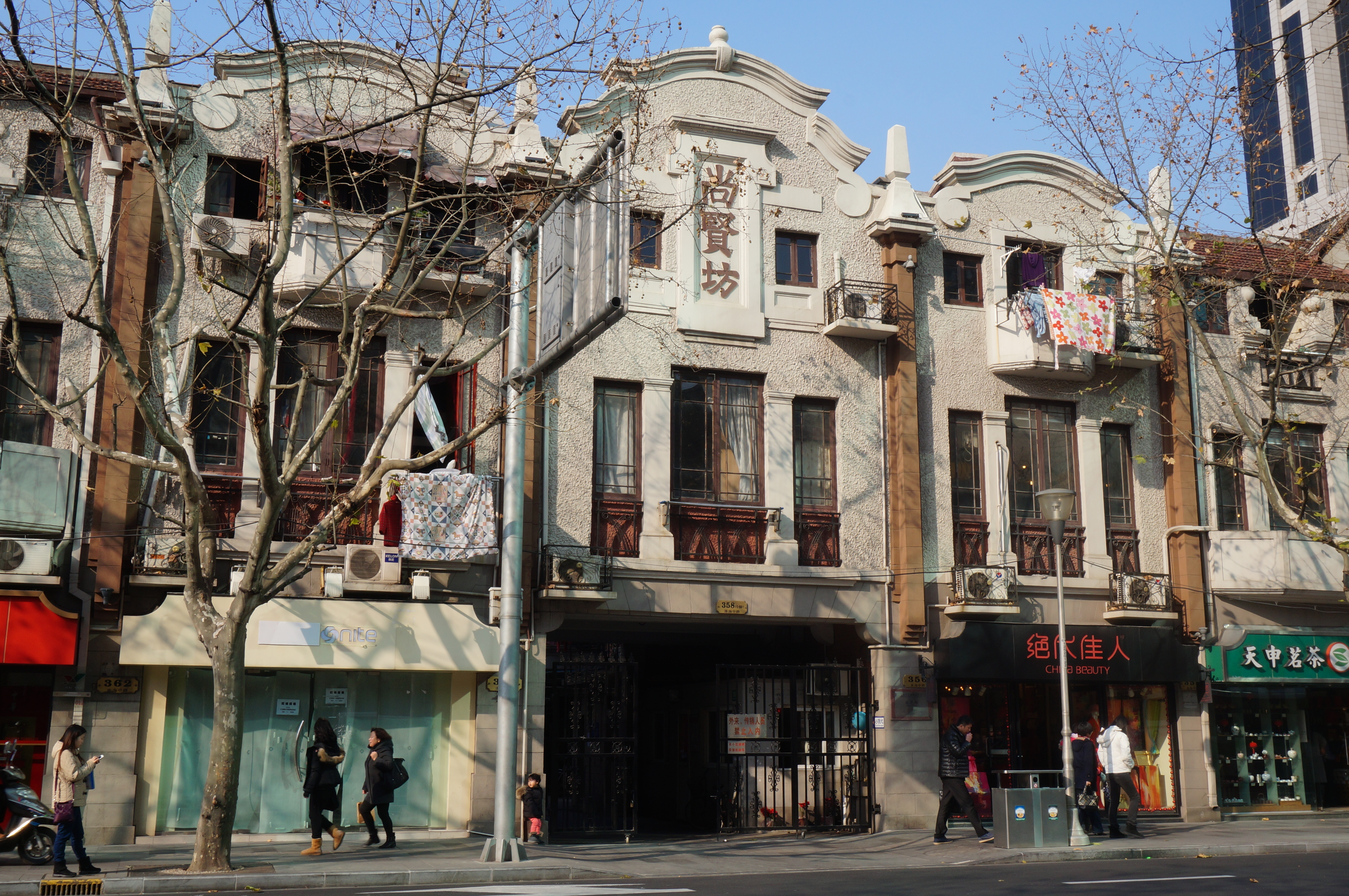 A heritage Shikumen Lane in Shanghai中文（中国大陆）: 上海尚贤坊